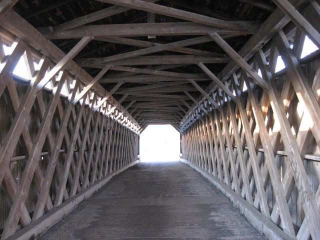 Covered Bridge, Cedarburg, Wisconsin - interior in 2008